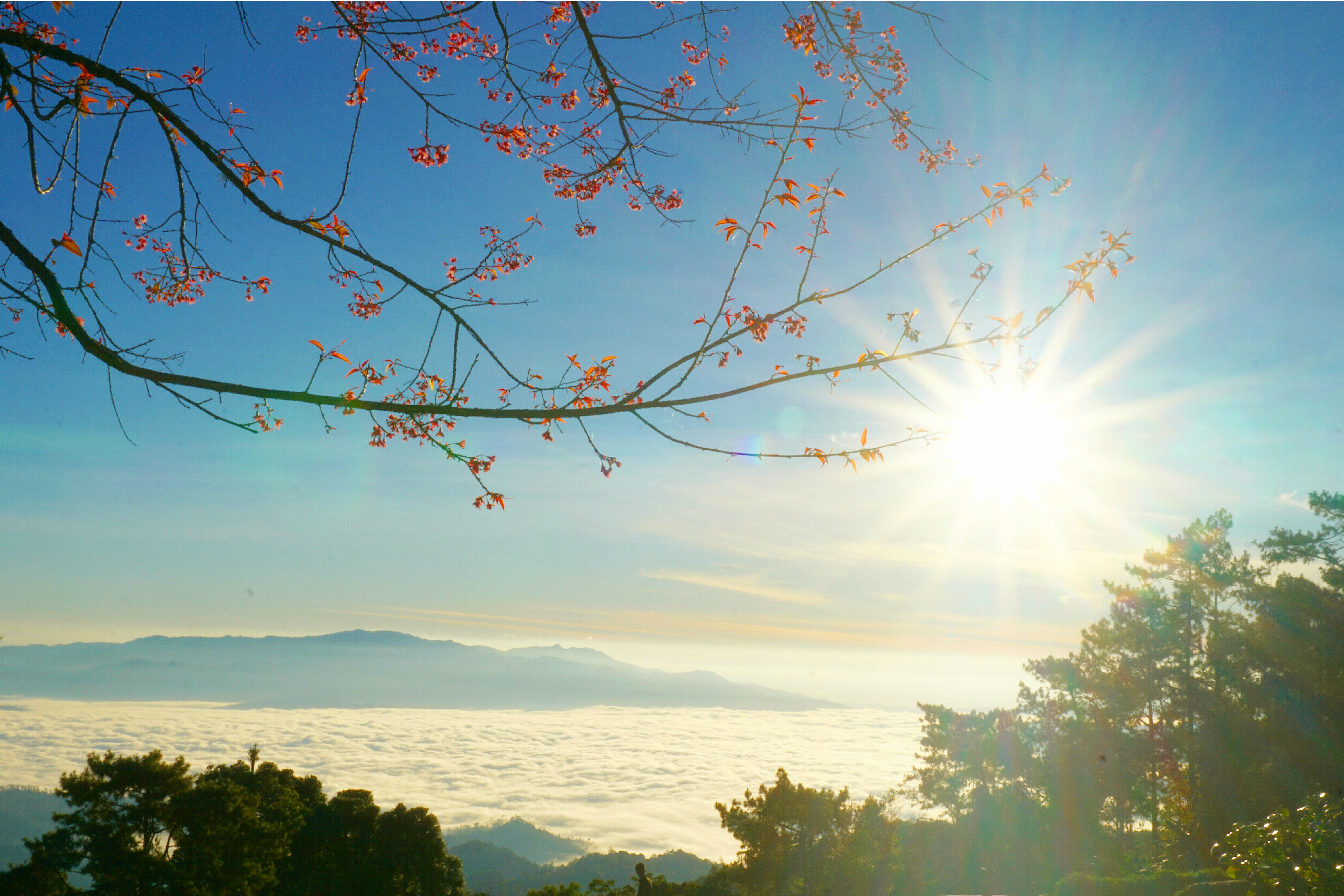 The morning scenery viewed from Doi Kio Lom Viewpoint, Huai Nam Dang National Park, Chiang Mai Province